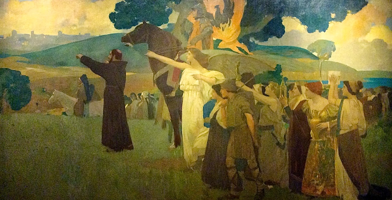 Vision of Saint Francis by Arthur Frank Mathews, 1911, oil on canvas, 91½ x 161½ in. (232 x 410 cm), Crocker Art Museum